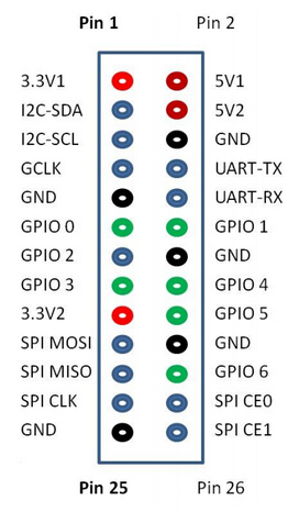 BPI-M1 GPIO